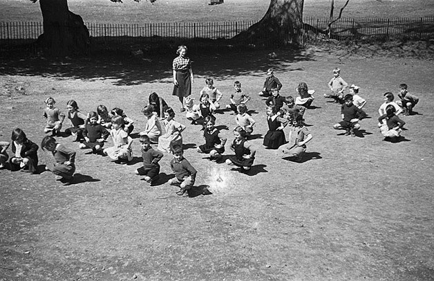 Teitl Cymraeg/Welsh title: Plant Ysgol Eglwys Llanfyllin mewn gwers ymarfer corff Ffotograffydd/Photographer: Geoff Charles (1909-2002) Dyddiad/Date: May 18, 1940 Cyfrwng/Medium: Negydd ffilm / Film negative Cyfeiriad/Reference: (gcc01842) Rhif cofnod / Record no.: 3472289 Rhagor o wybodaeth am gasgliad Geoff Charles yn Llyfrgell Genedlaethol Cymru More information about the Geoff Charles Collection at the National Library of Wales Mae ffotograffau Geoff Charles hefyd yn rhan o Broject Europeana Libraries Geoff Charles' photographs also form part of the Europeana Libraries Project